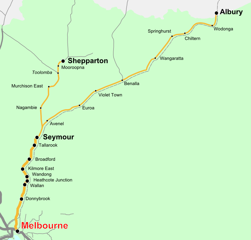 Map of the Albury / Shepparton railways of Victoria, Australia